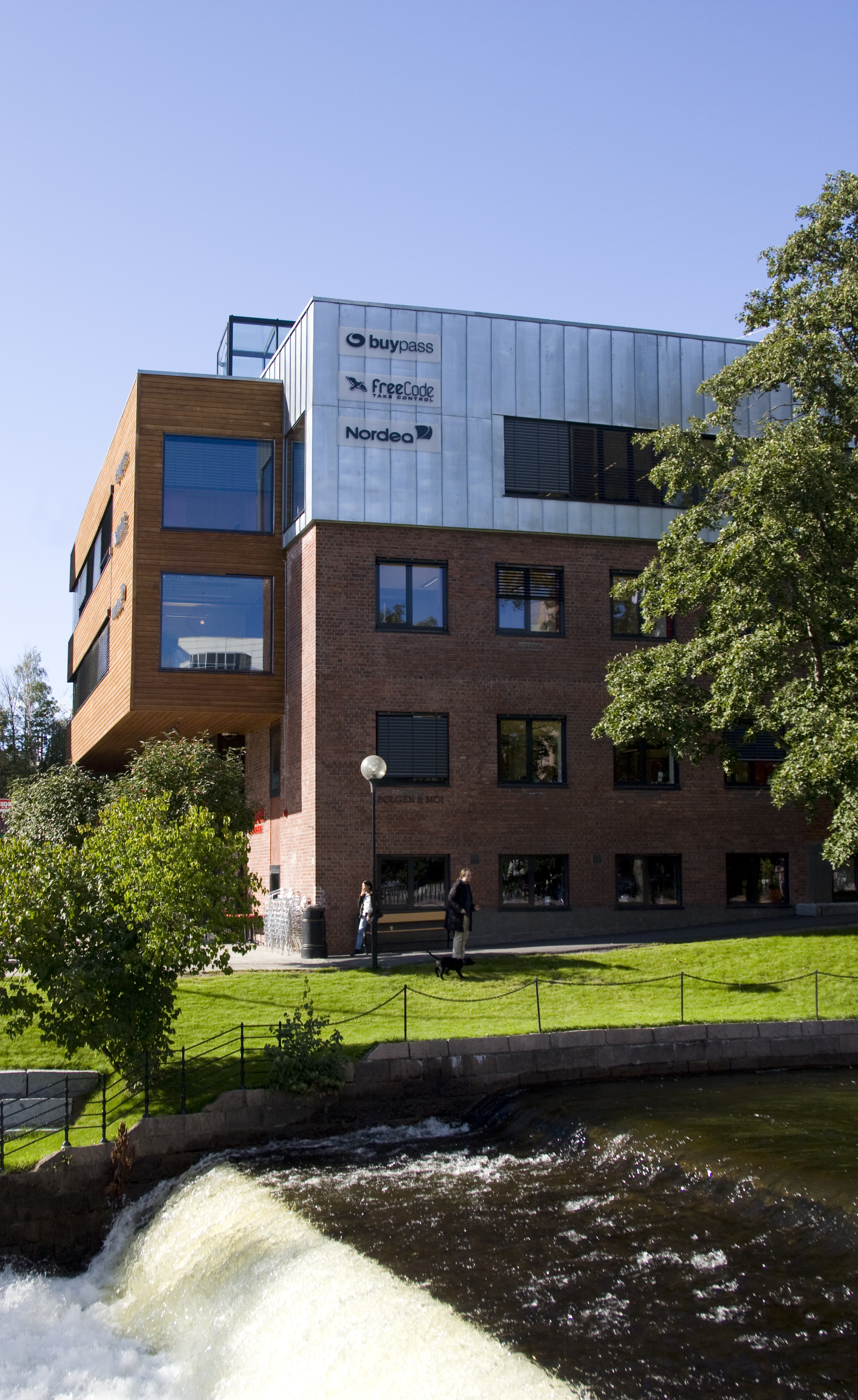 Buypass hovedkontor i Nydalsveien 30A i Oslo